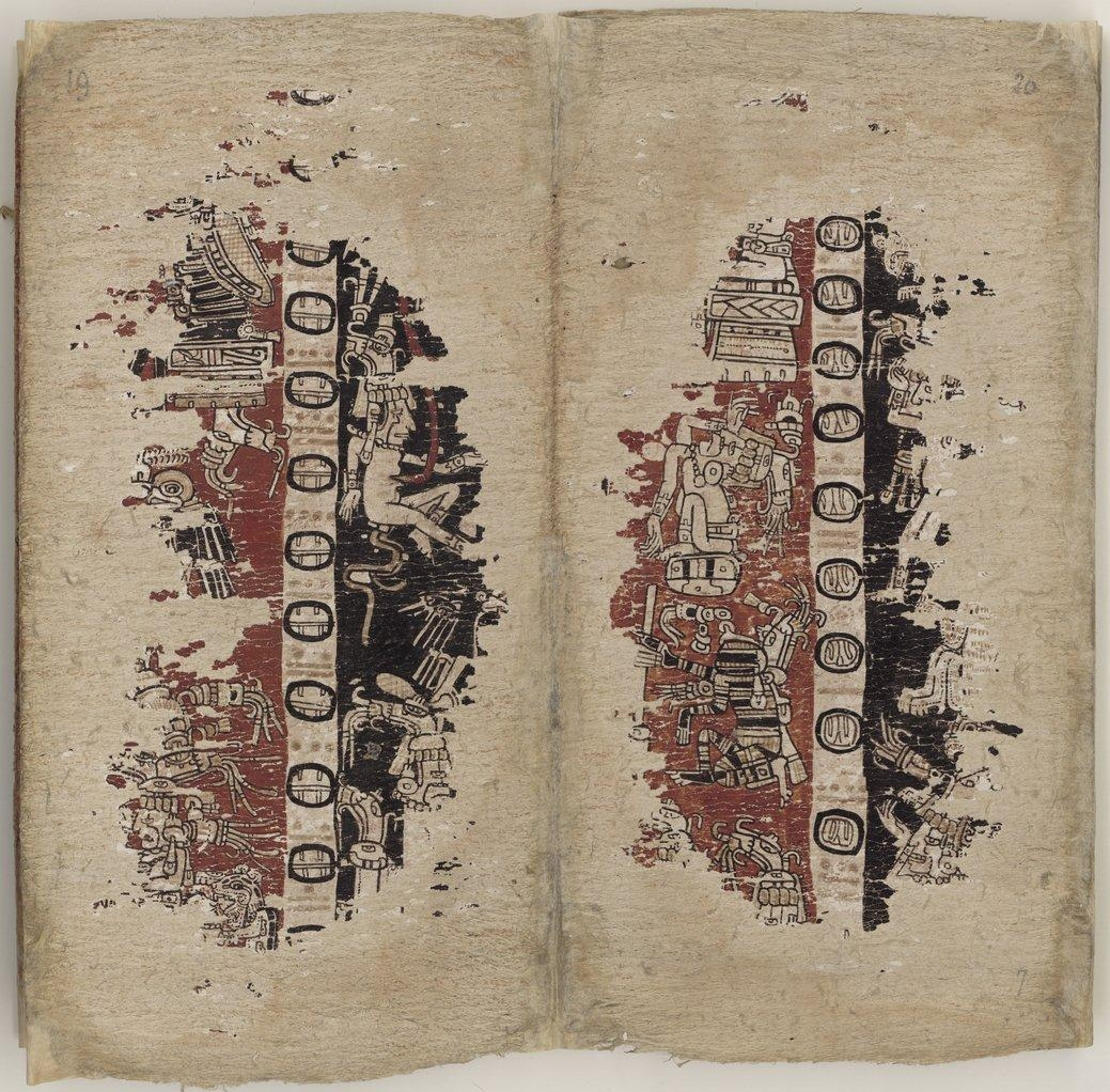 Pages 17-18 of the Paris Codex, a Postclassic Maya book.